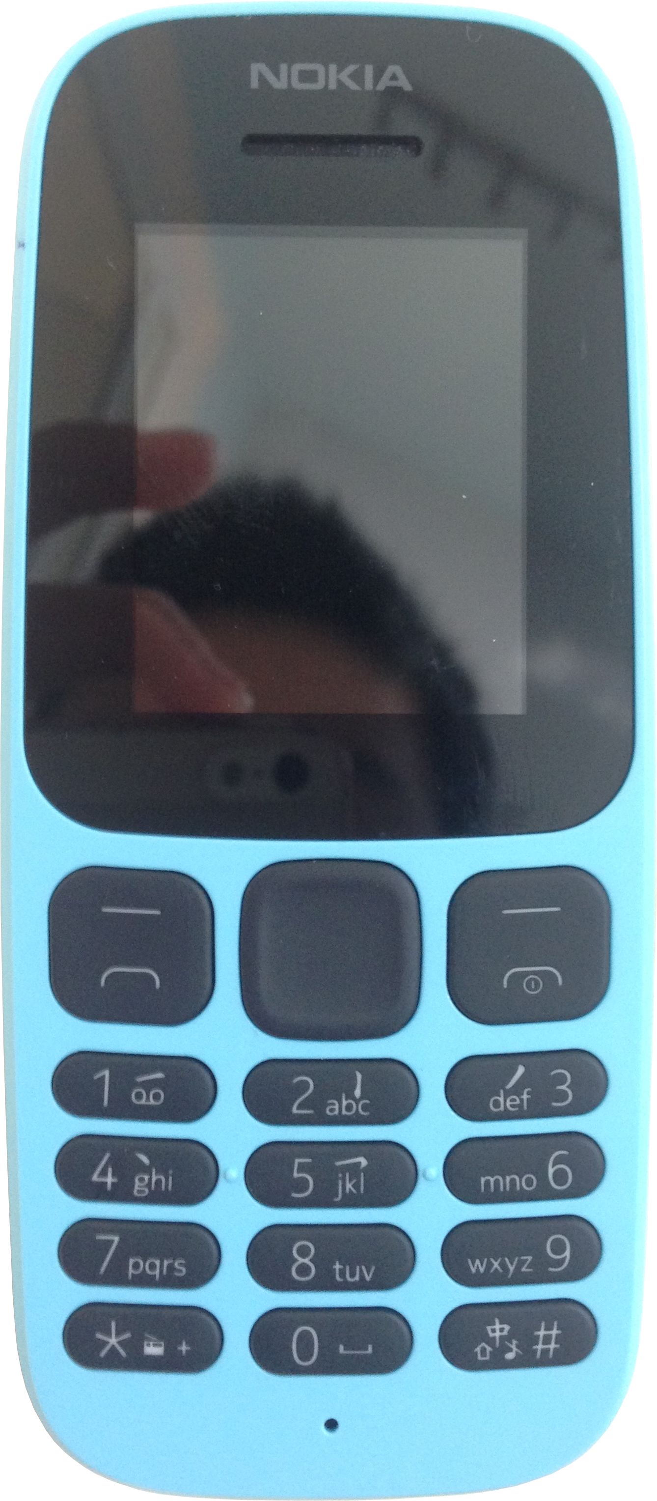 Nokia 105 version 2017